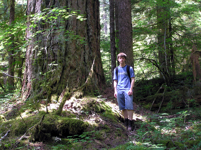 Hiker next to a large old-growth tree in the Trapper Creek Wilderness, Washington state, USA